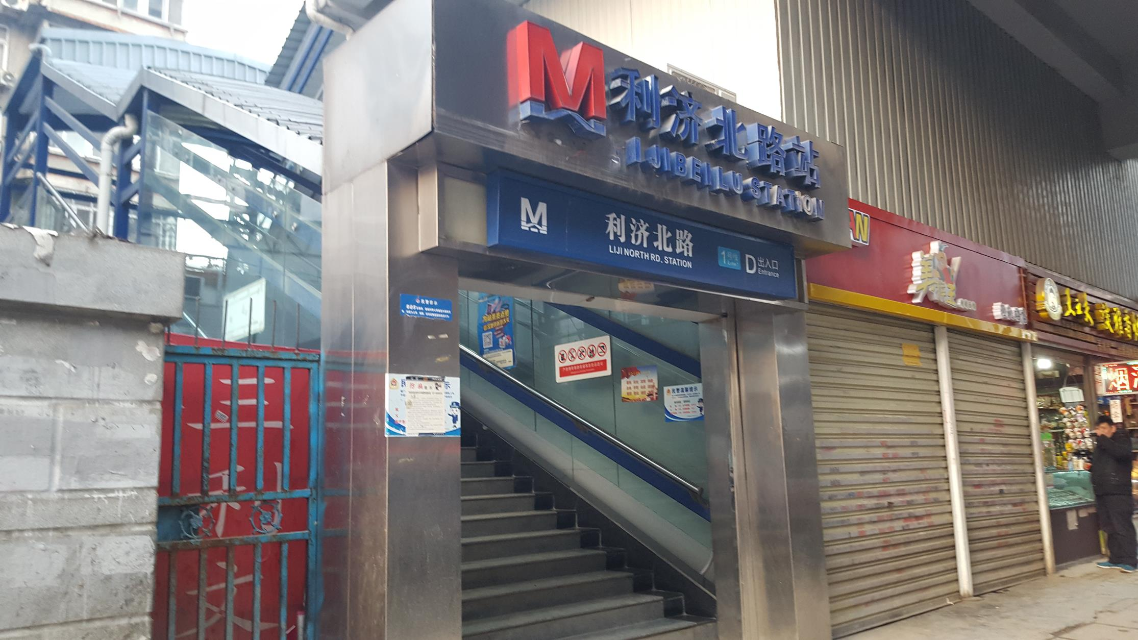 Entrance D of Liji Nouth Road Station, Wuhan Metro